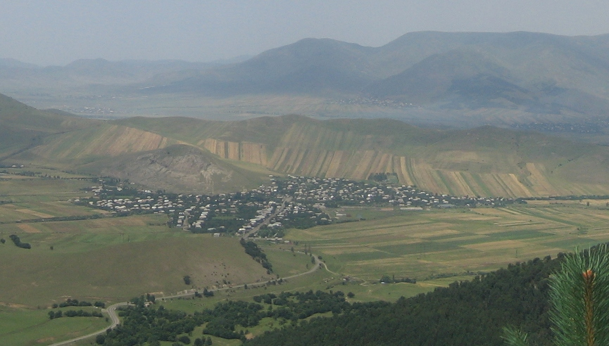 The village of Gargar in Armenia's northern province of Lori, as seen from Pushkin Pass.